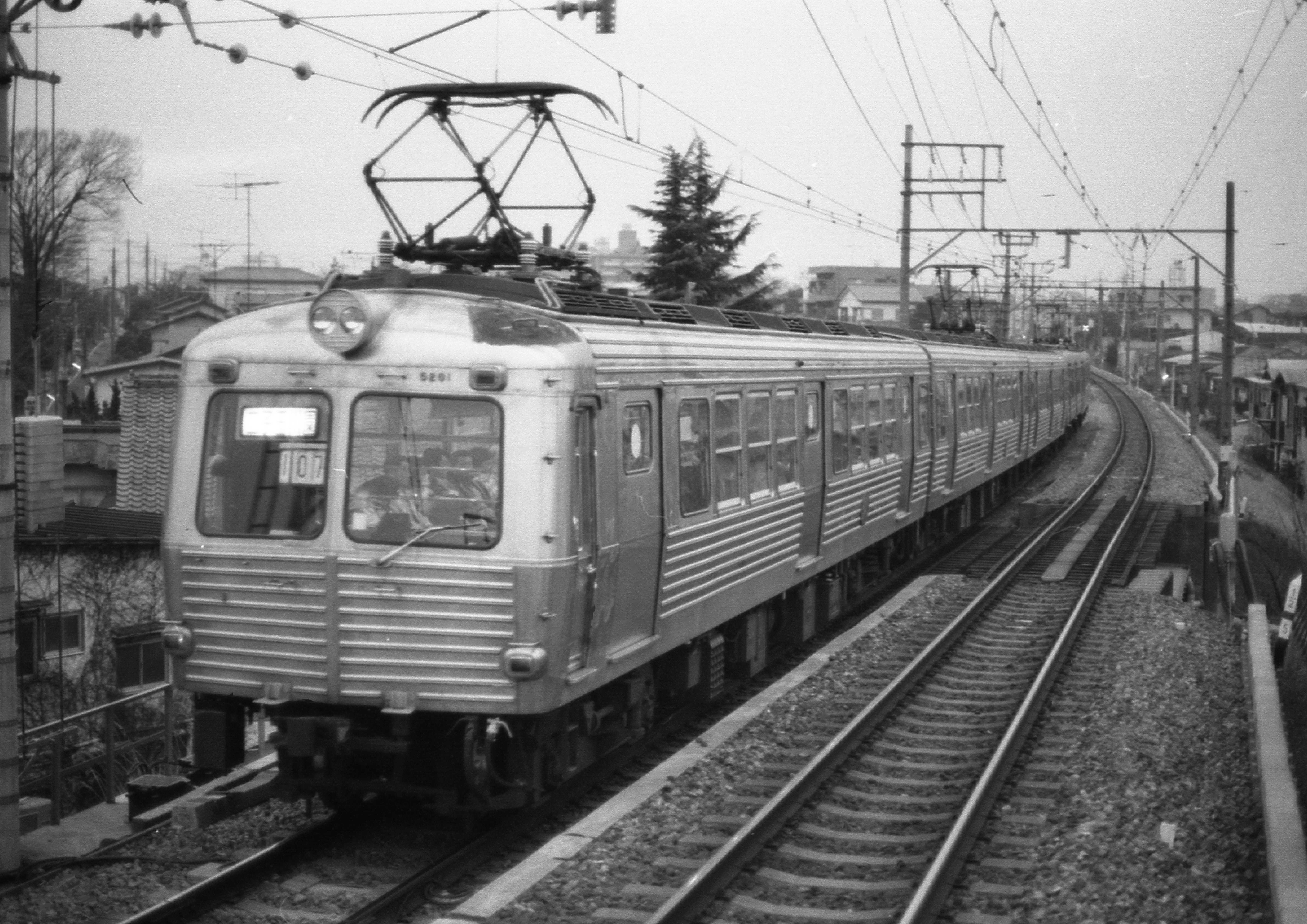 An Oimachi Line train with 5200 series to Futako tamagawa en leaving Midorigaoka station